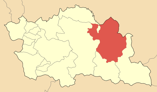 Locator map of Ventziou municipality (Δήμος Βεντζίου) at Grevena perfecture, Greece.